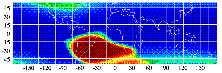 Image of the South Atlantic Anomaly (SAA) taken by the ROSAT satellite. Image reflects the SAA at approximately 560Km.